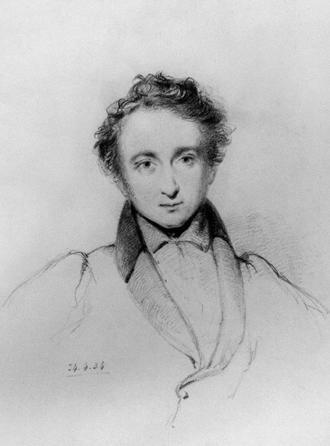 Portrait of sir Alexander Burnes